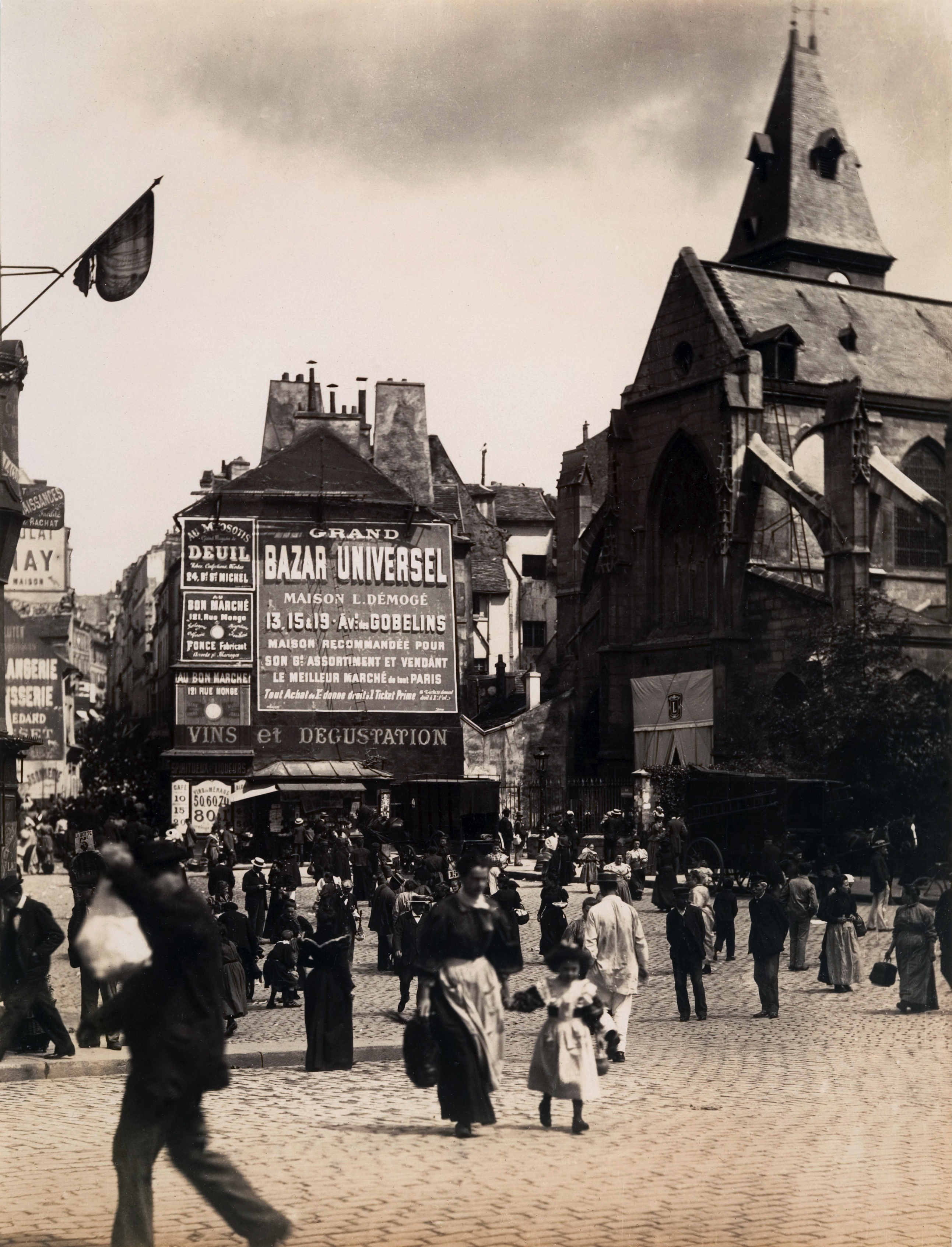 Rue Mouffetard, Paris